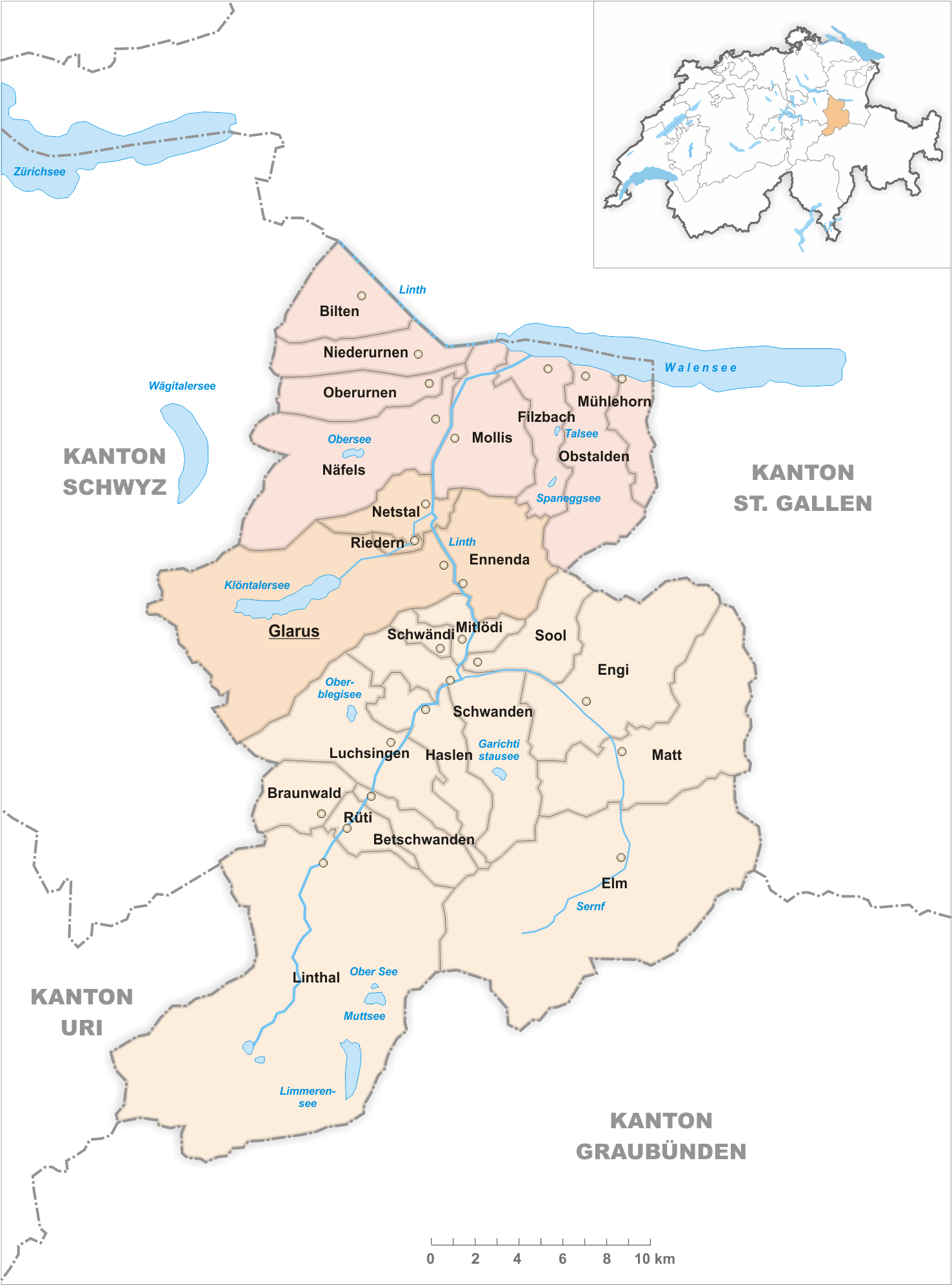 Municipalities in the canton of Glarus until 2010